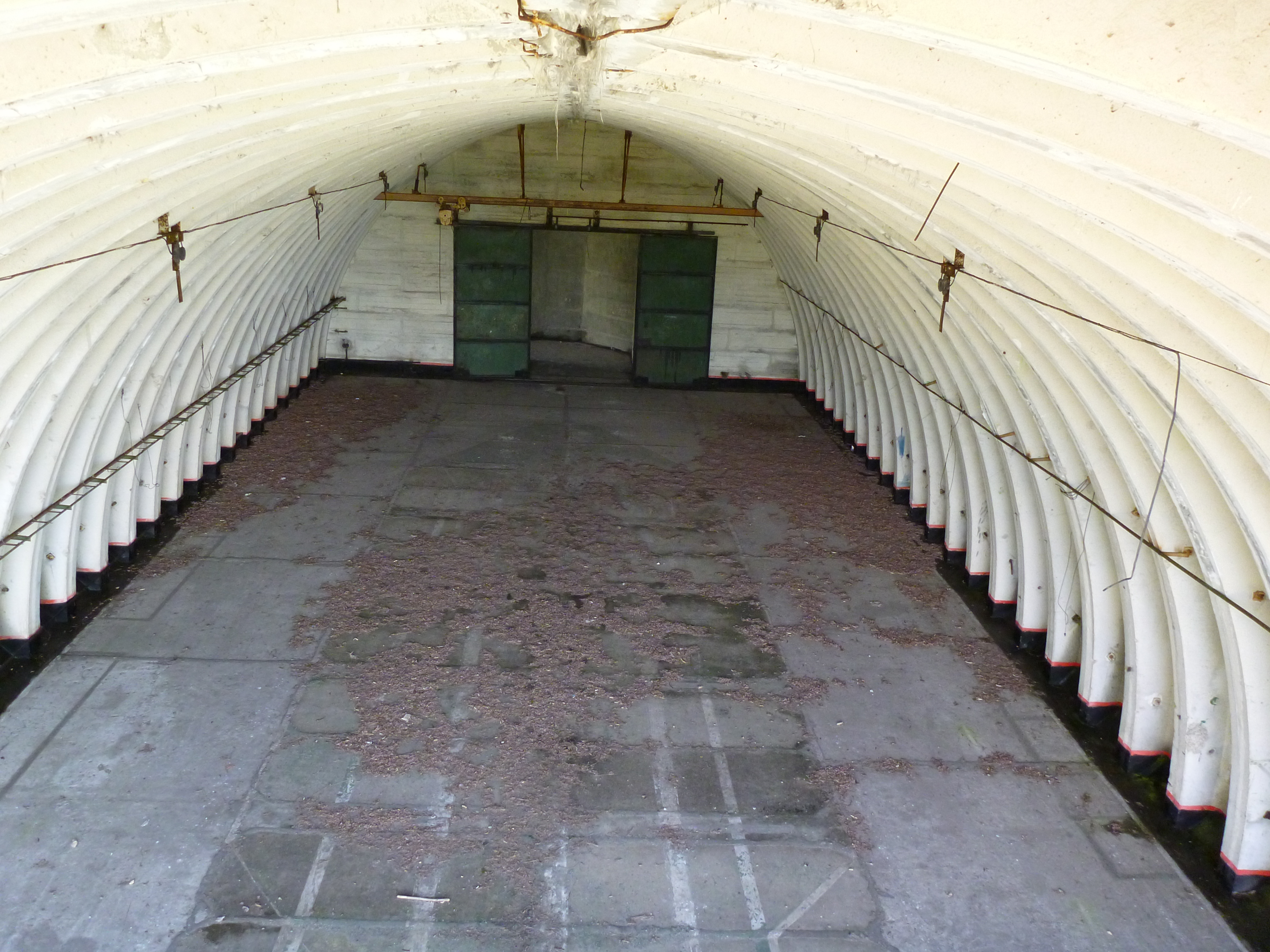 Lausitzflugplatz shelter view inside